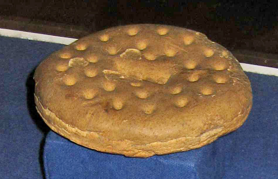 A ship biscuit, purportedly the oldest in the world, is displayed prominently at the maritime museum in Kronborg castle, Elsinore, Denmark. The label tells that this biscuit dates from as early as 1852. (Cropped version of photo for use in small spaces).